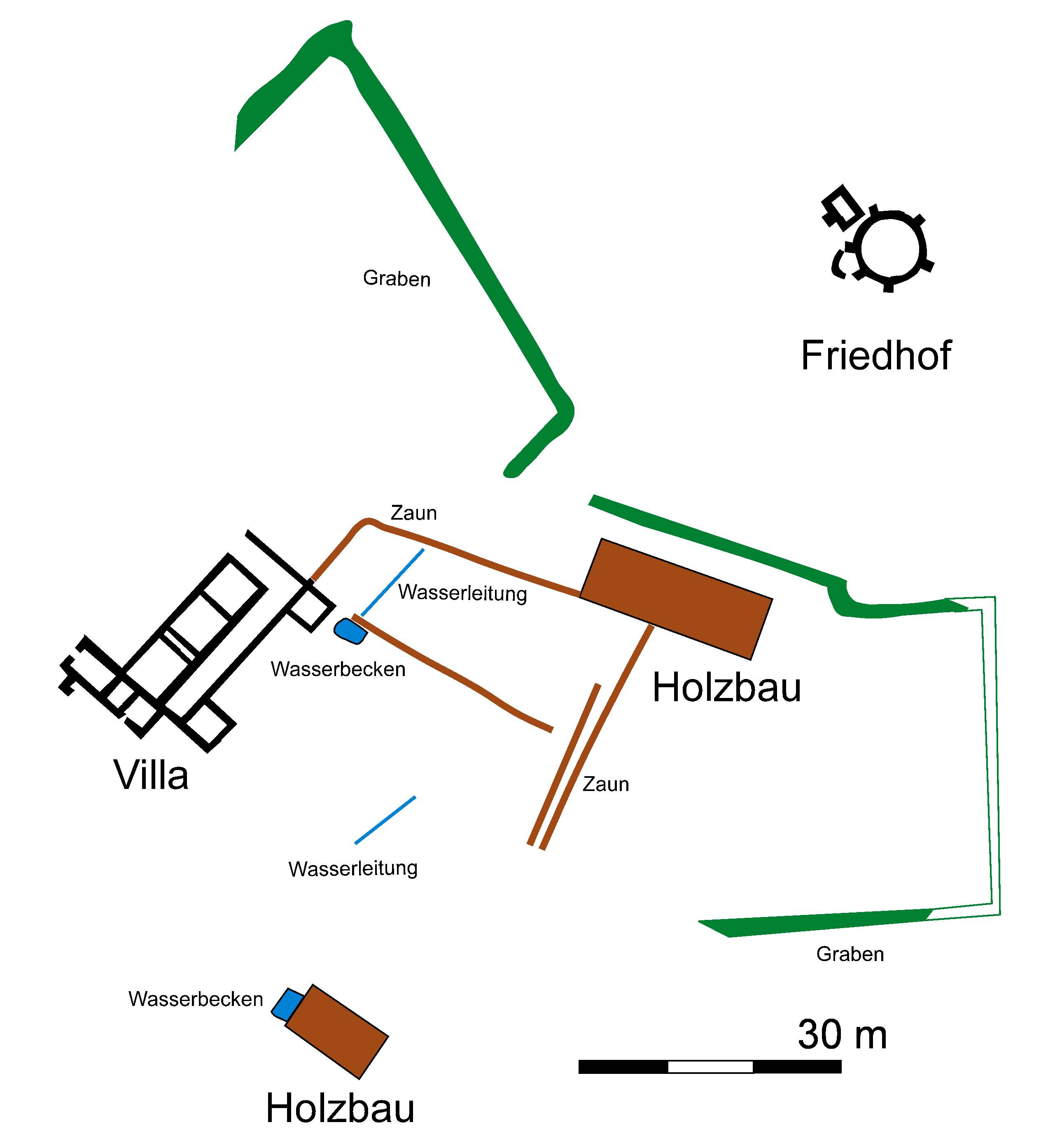 Plan of the Roman villa complex at Keston (London); about AD 250